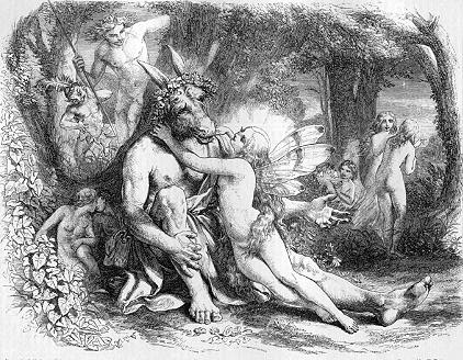 Joseph Noel Paton, Titania (1850)